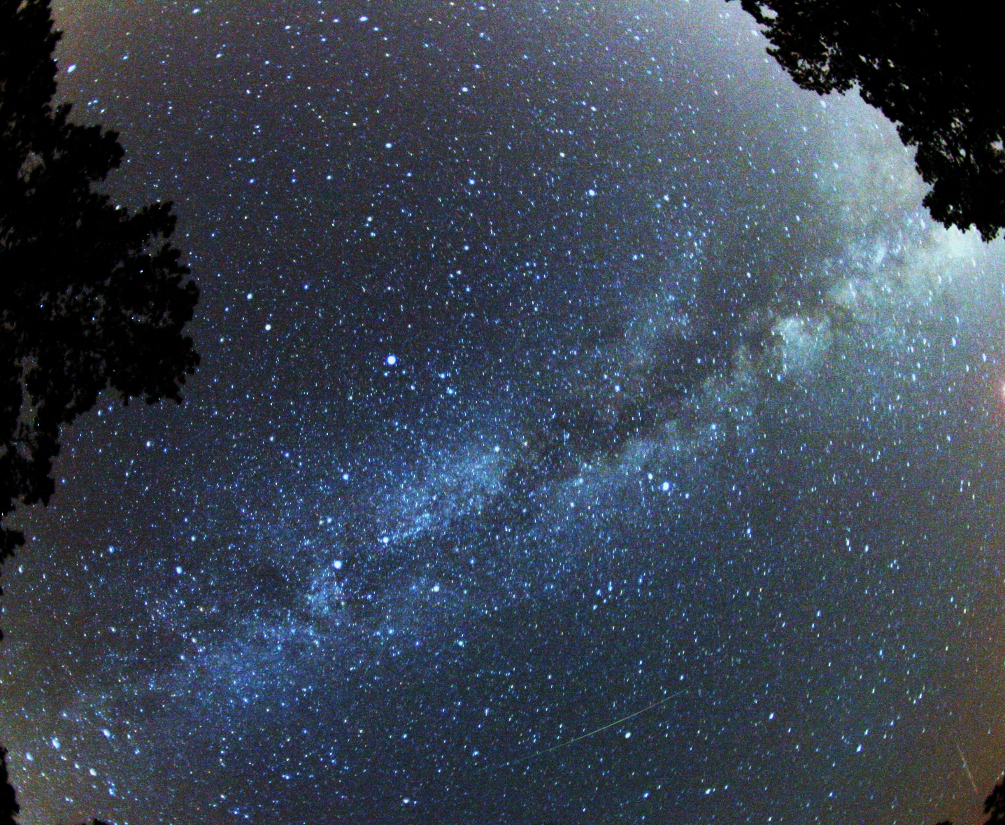 A green and red Perseid meteor striking the sky just below Milky Way. The trail appears slightly curved due to edge distortion in the lens